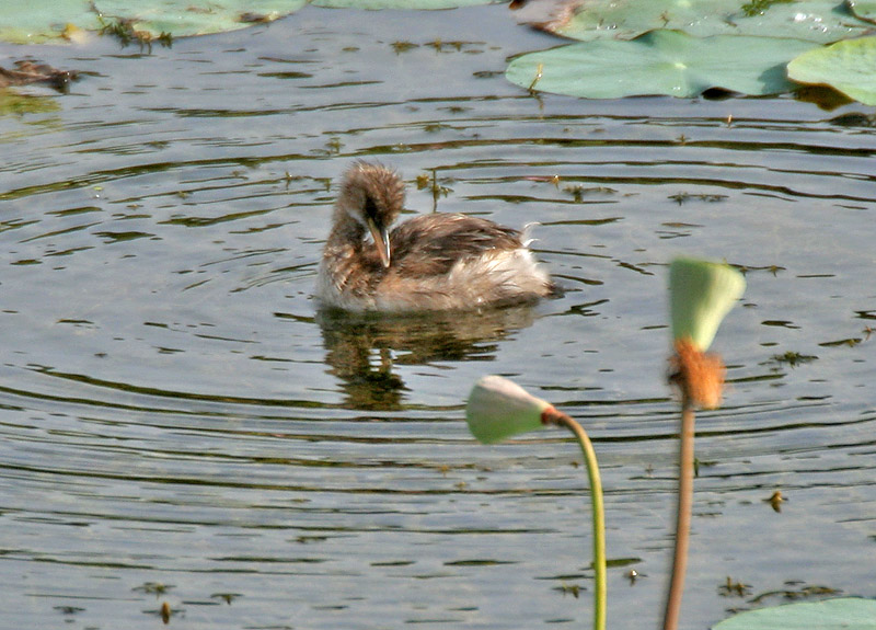 Little Grebe Tachybaptus ruficollis in Hyderabad , India.